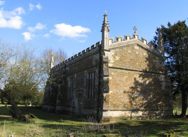 Withcote Chapel in Leicesteshire